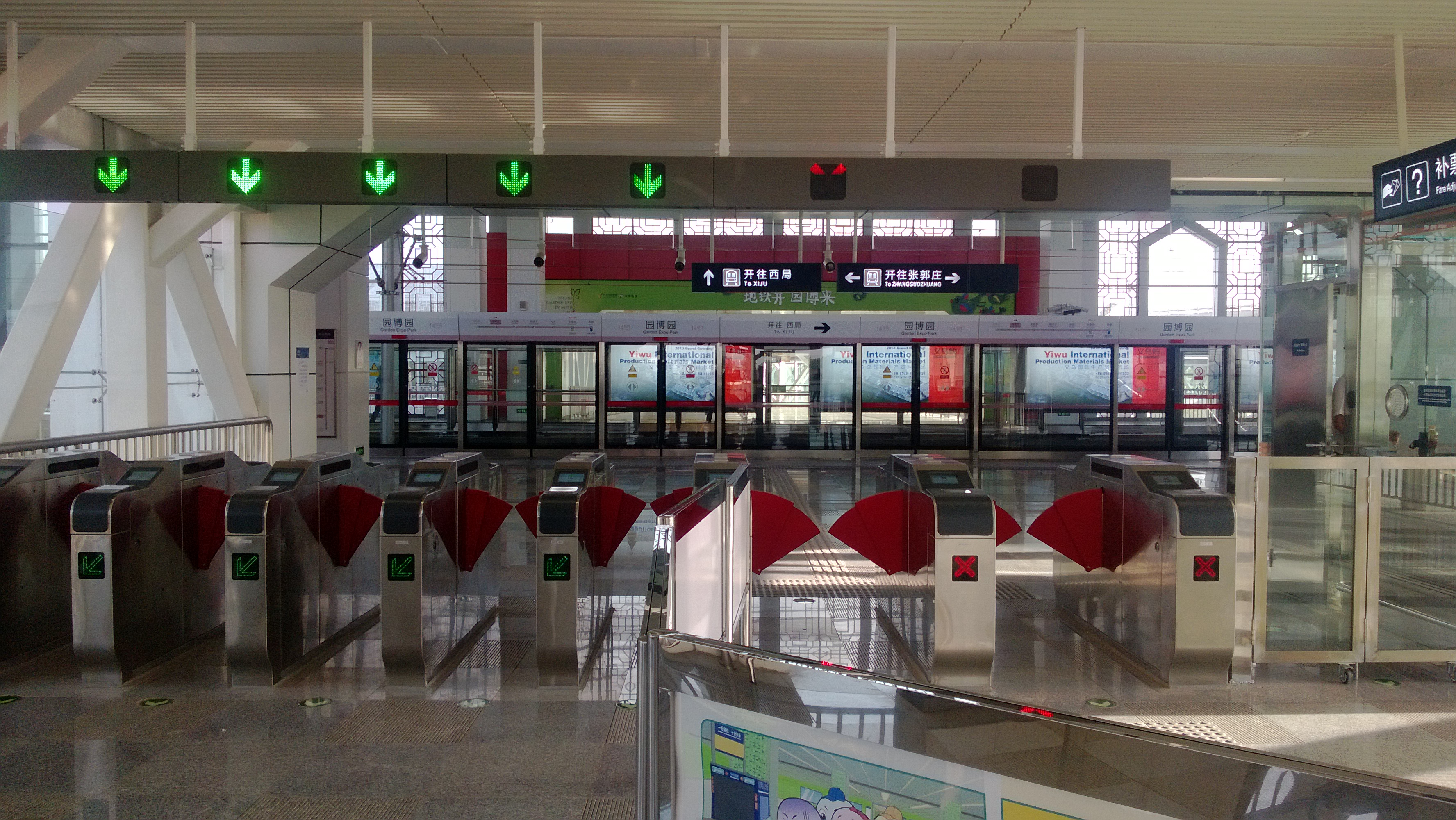 South entrance of Garden Expo Park station of Beijing Subway Line 14.